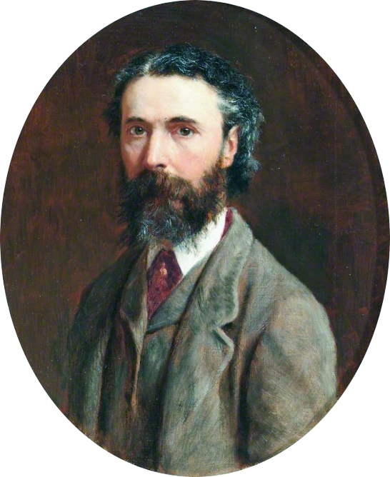 Self portrait oil on canvas 34.5 x 29.7 cm 1882